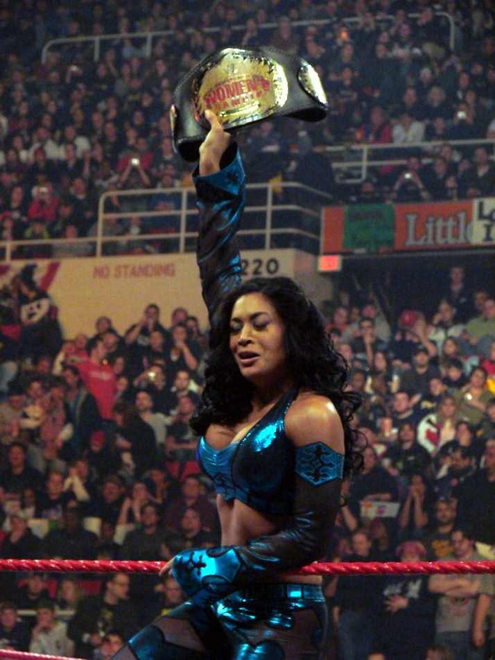 Melina Perez at the Royal Rumble